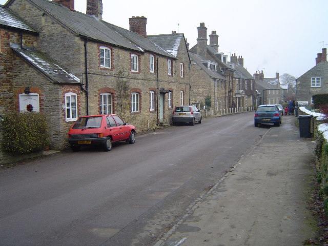 Main Street, Charlton. From the post office, looking south.